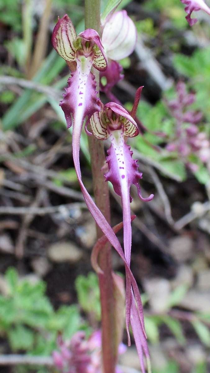 Himantoglossum caprinum labellum